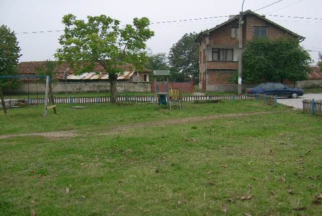 The children`s playground in village Levski, Pazardzhik District, Bulgaria